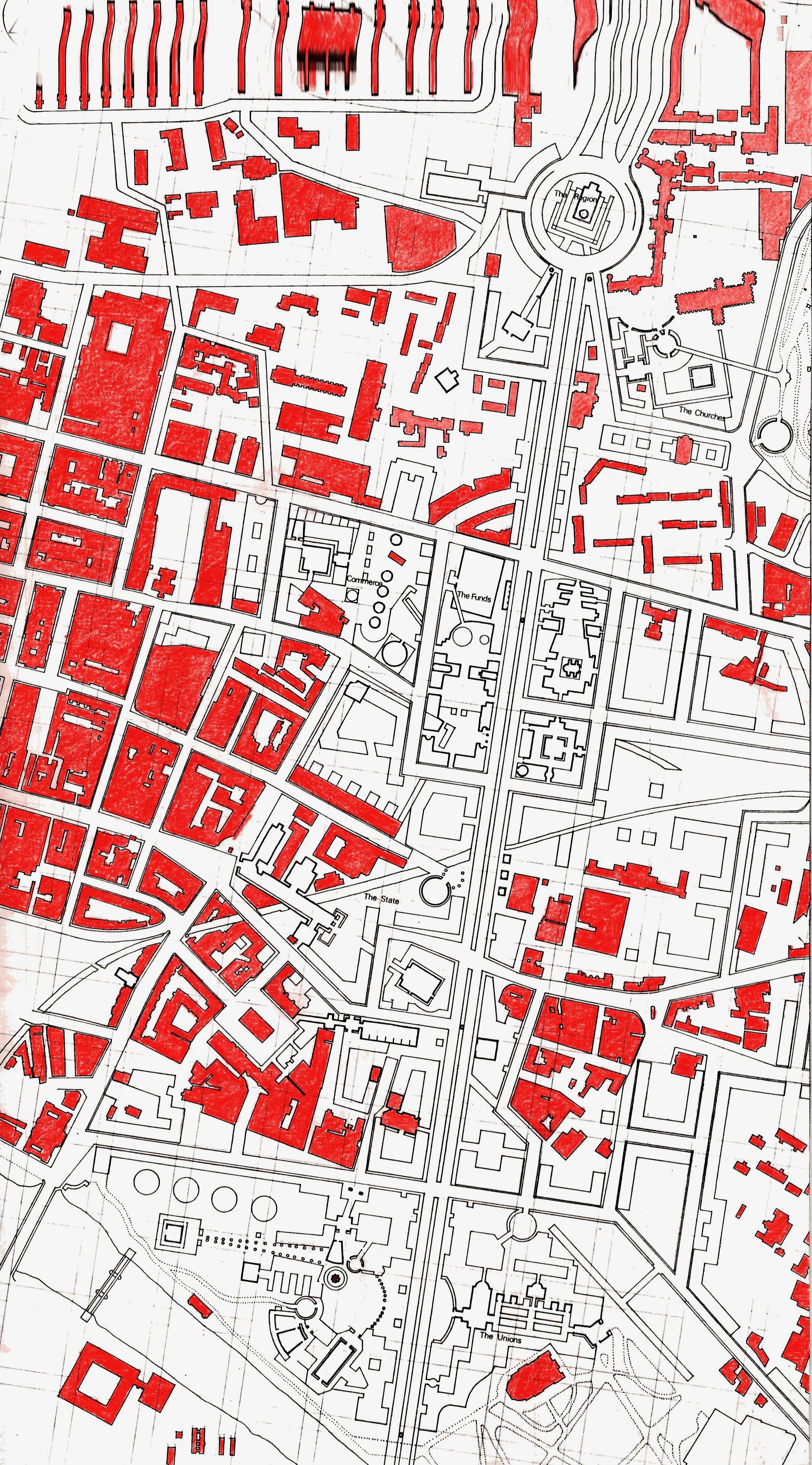 Featured images for Douglas Jarvie Clelland Wikipedia article